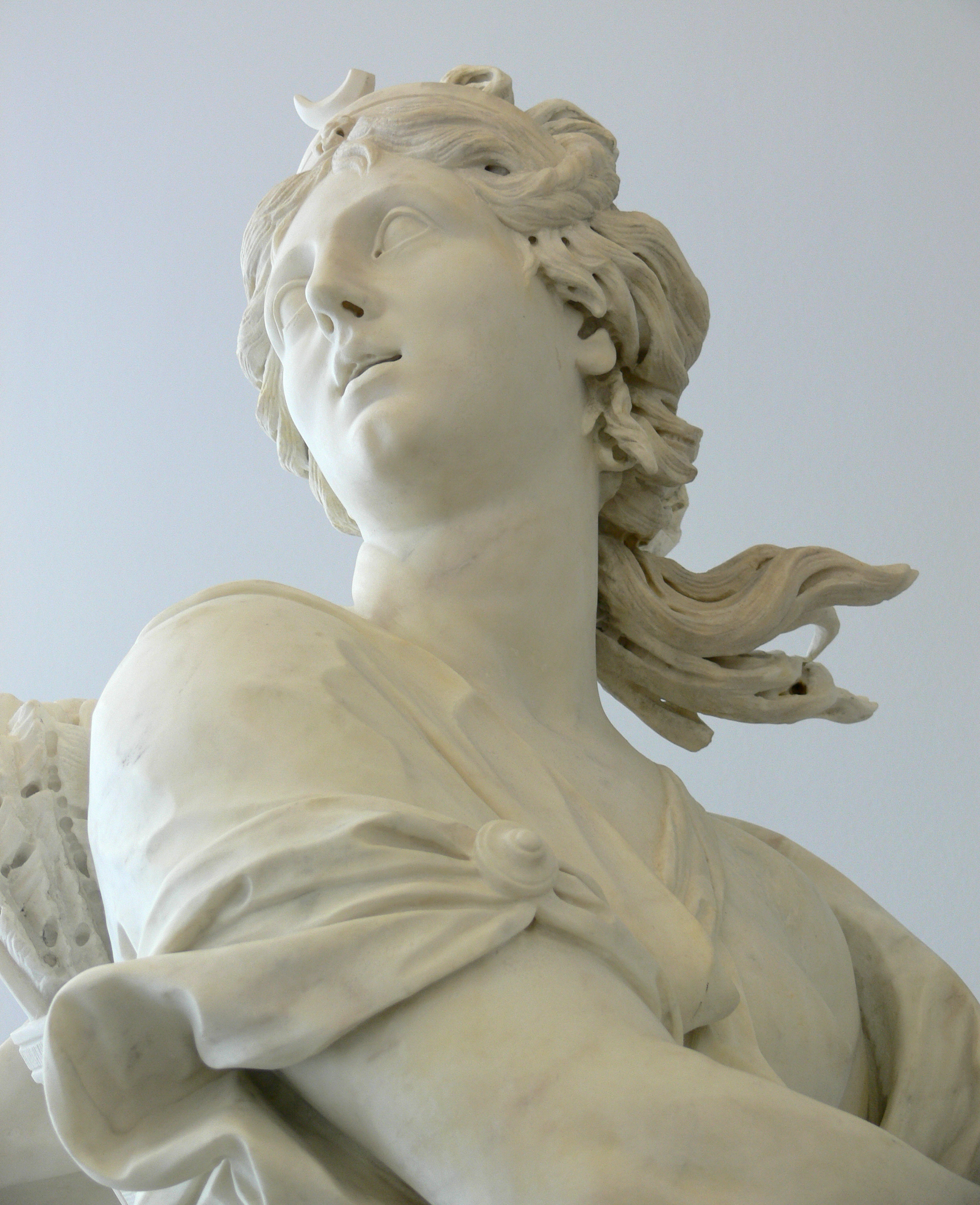 Detail from: Bernardino Cametti: Diana as Huntress, Rome 1717/1720, marble. Skulpturensammlung (Inv. 9/59; acquired in 1959), Bode-Museum Berlin.